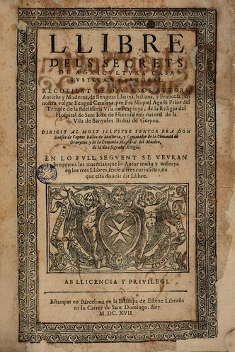 Frontpage of Llibre d'agricultura (1617) by Miquel Agusti (ca 1560-1630)